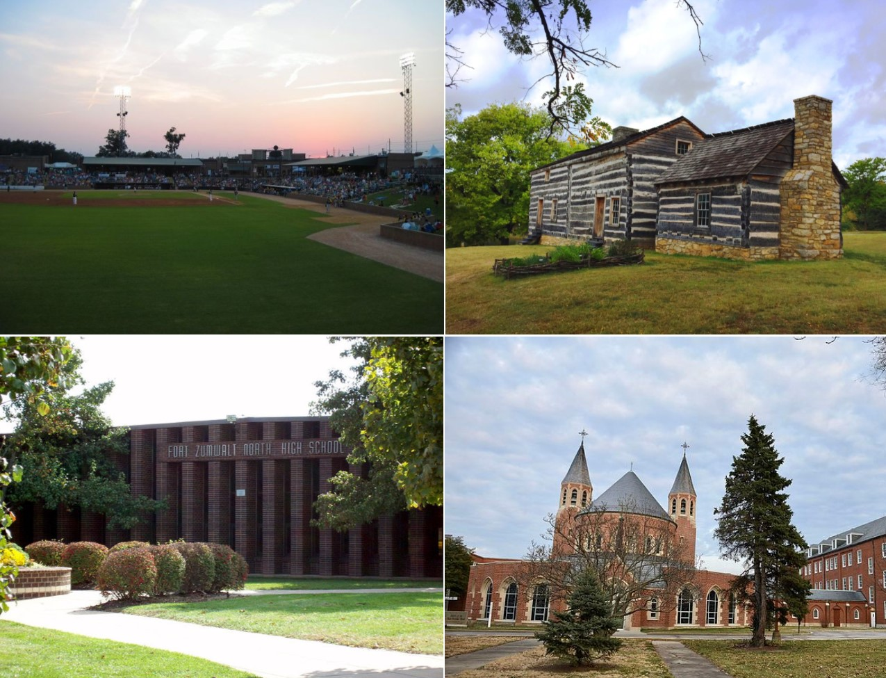 O'Fallon, Missouri montage